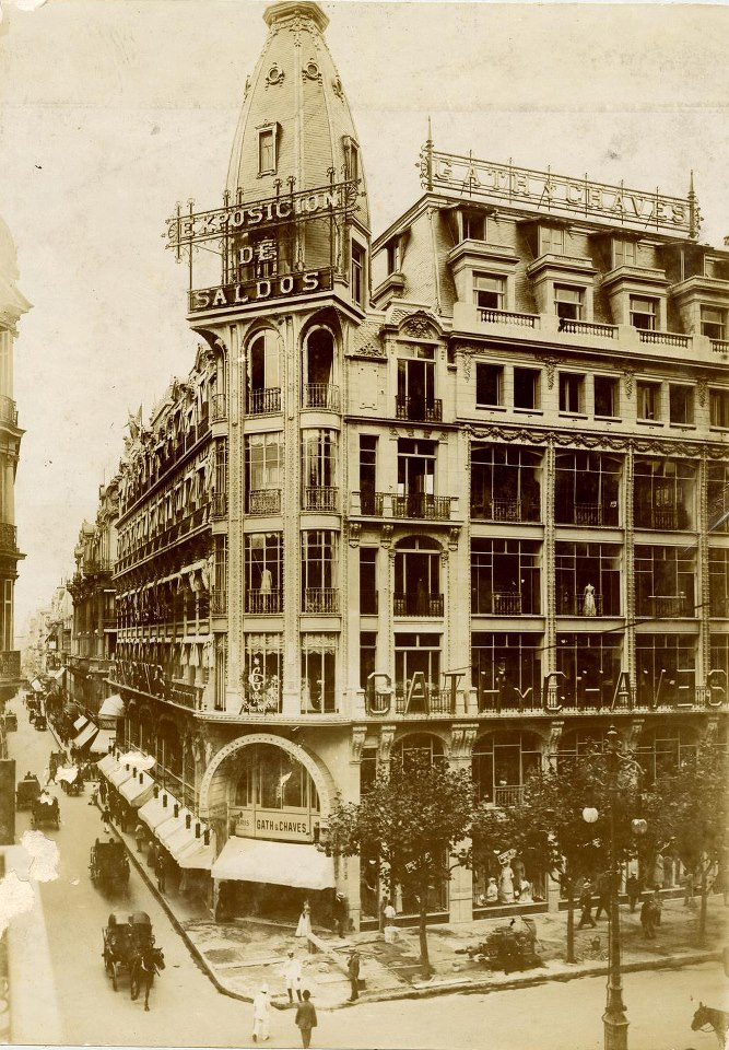 The Gath y Cháves anexo in Av. de Mayo and Perú, Buenos Aires.